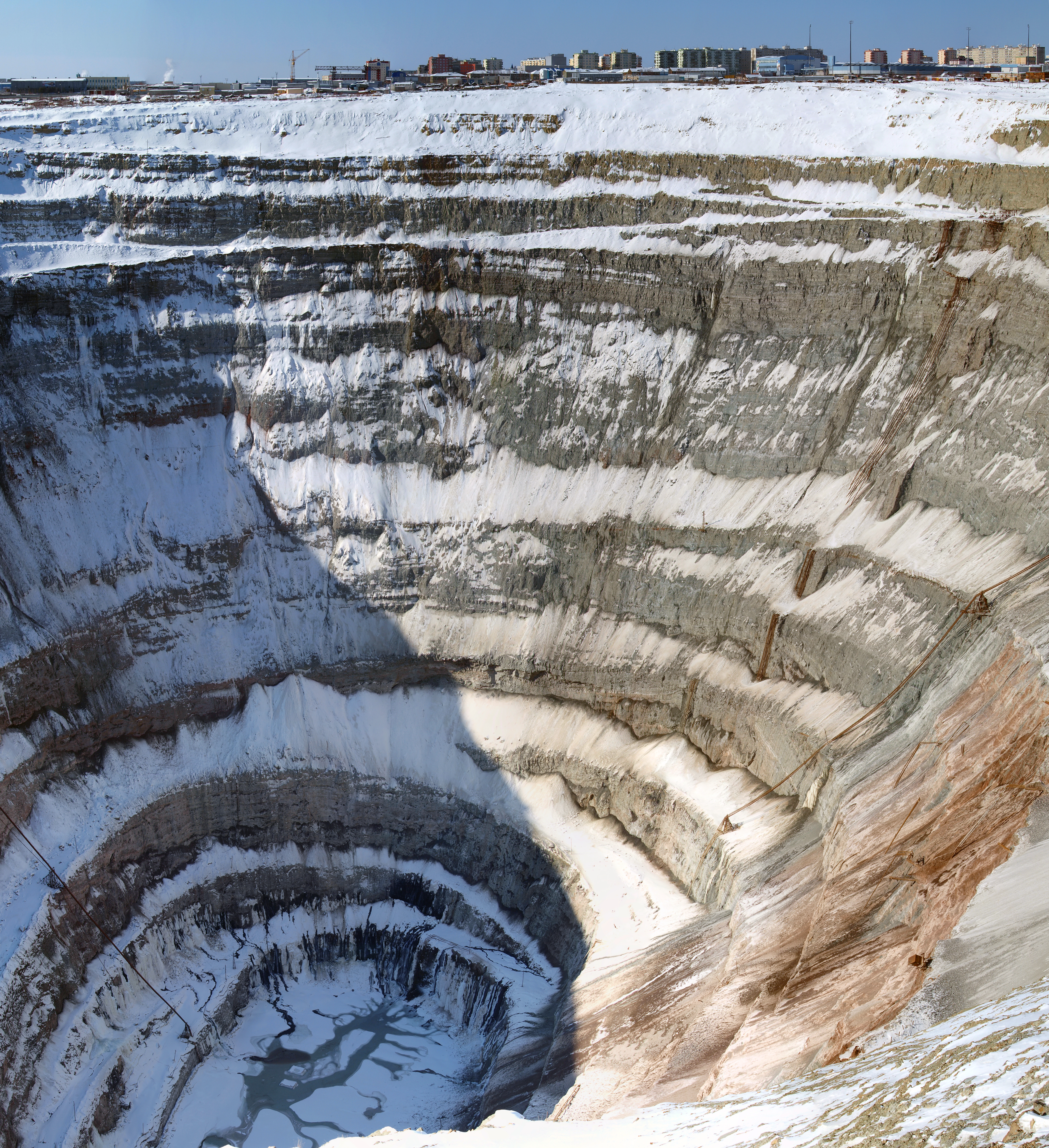 Diamond mine. Mirny in Yakutia.